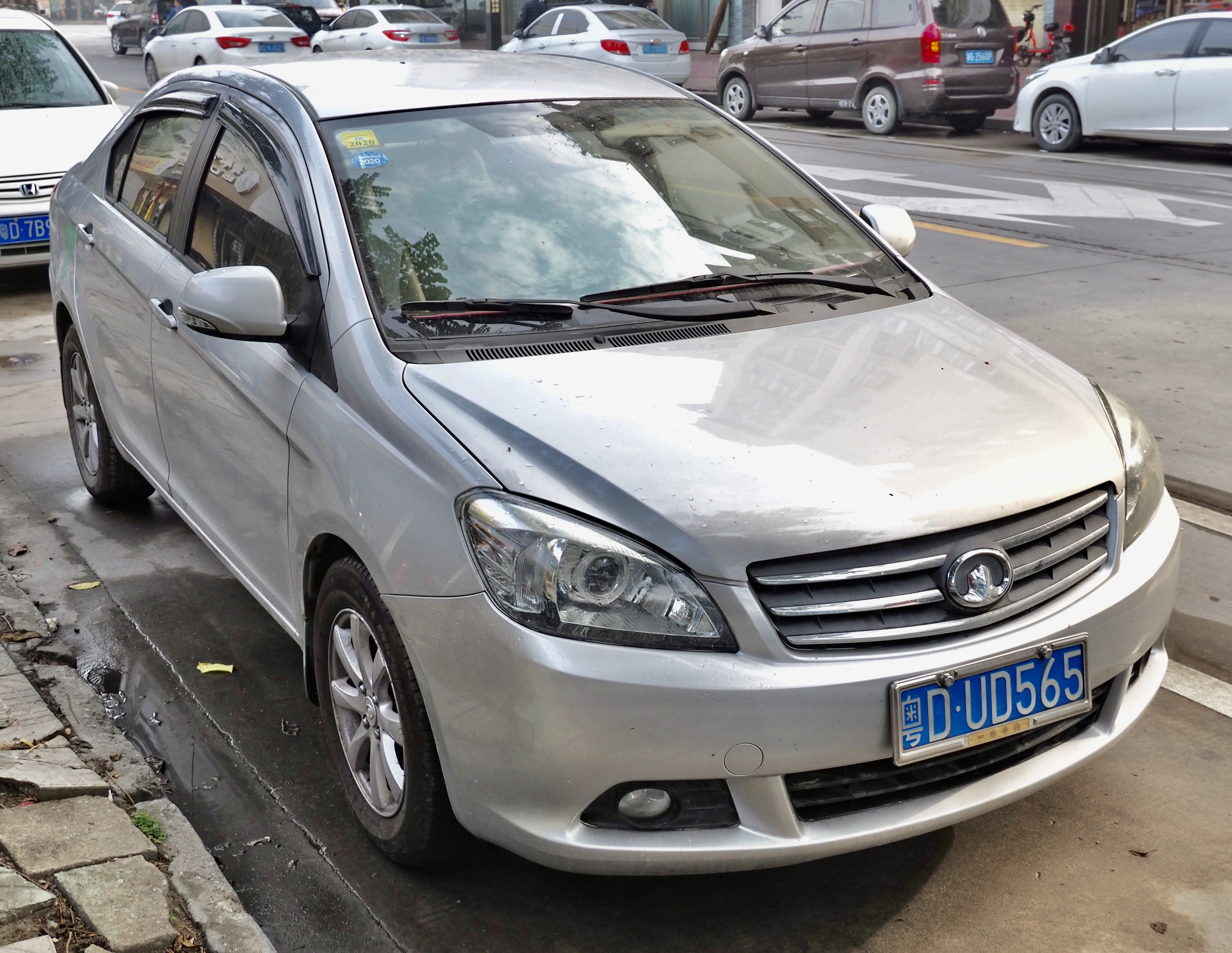 A 2010 Great Wall Voleex C30 photographed in Shantou, Guangdong province, China. 中文（中国大陆）: 一辆2010年的长城腾翼C30，拍摄于中国广东省汕头市。